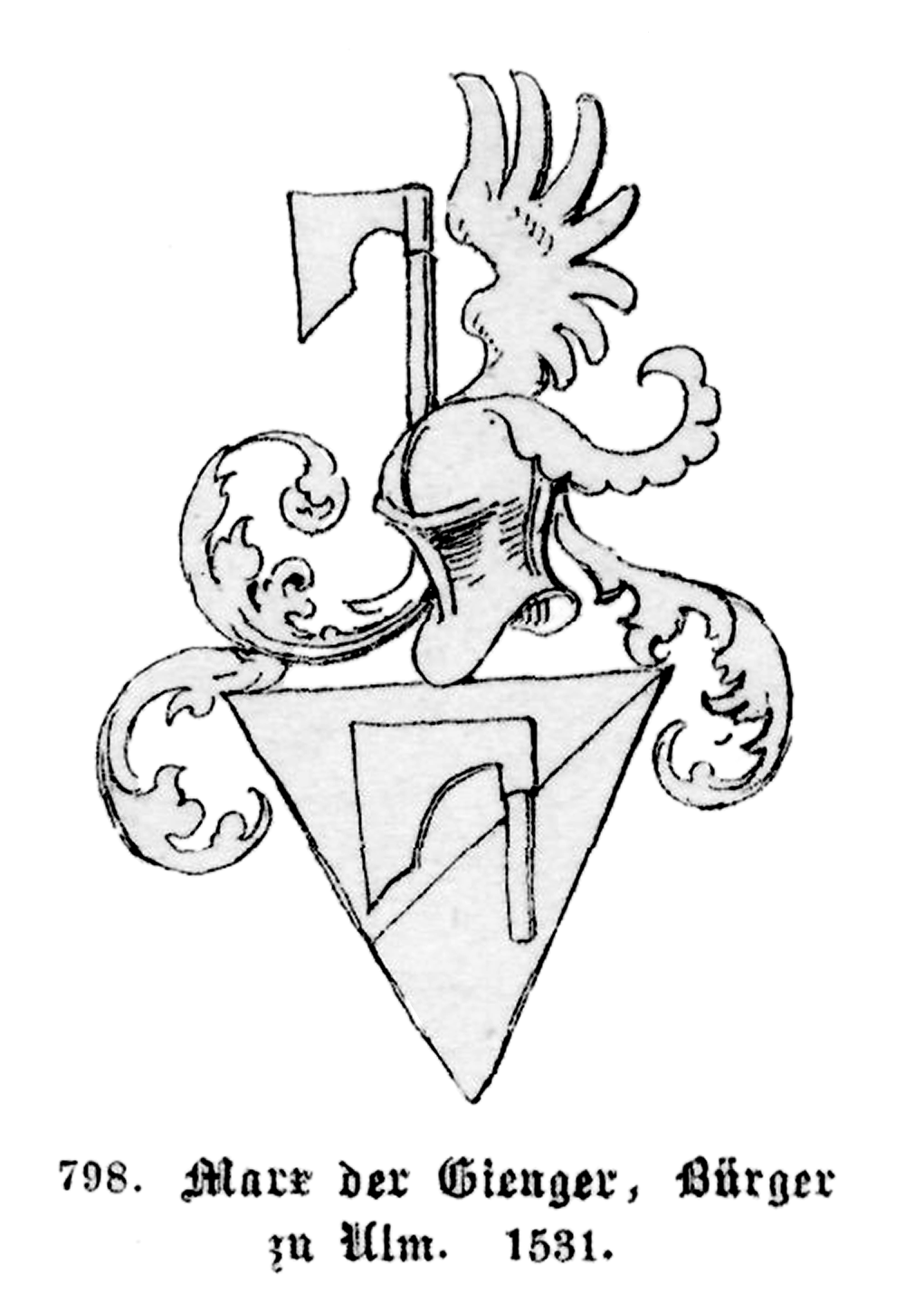 Coats of Arms of Marx Gienger, Ulm 1531